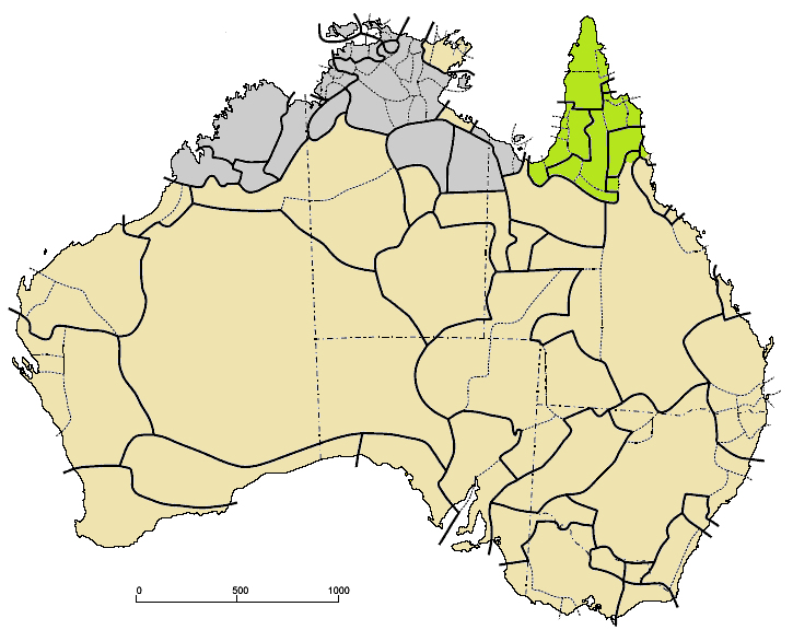 Paman languages (green) among other Pama–Nyungan (tan)